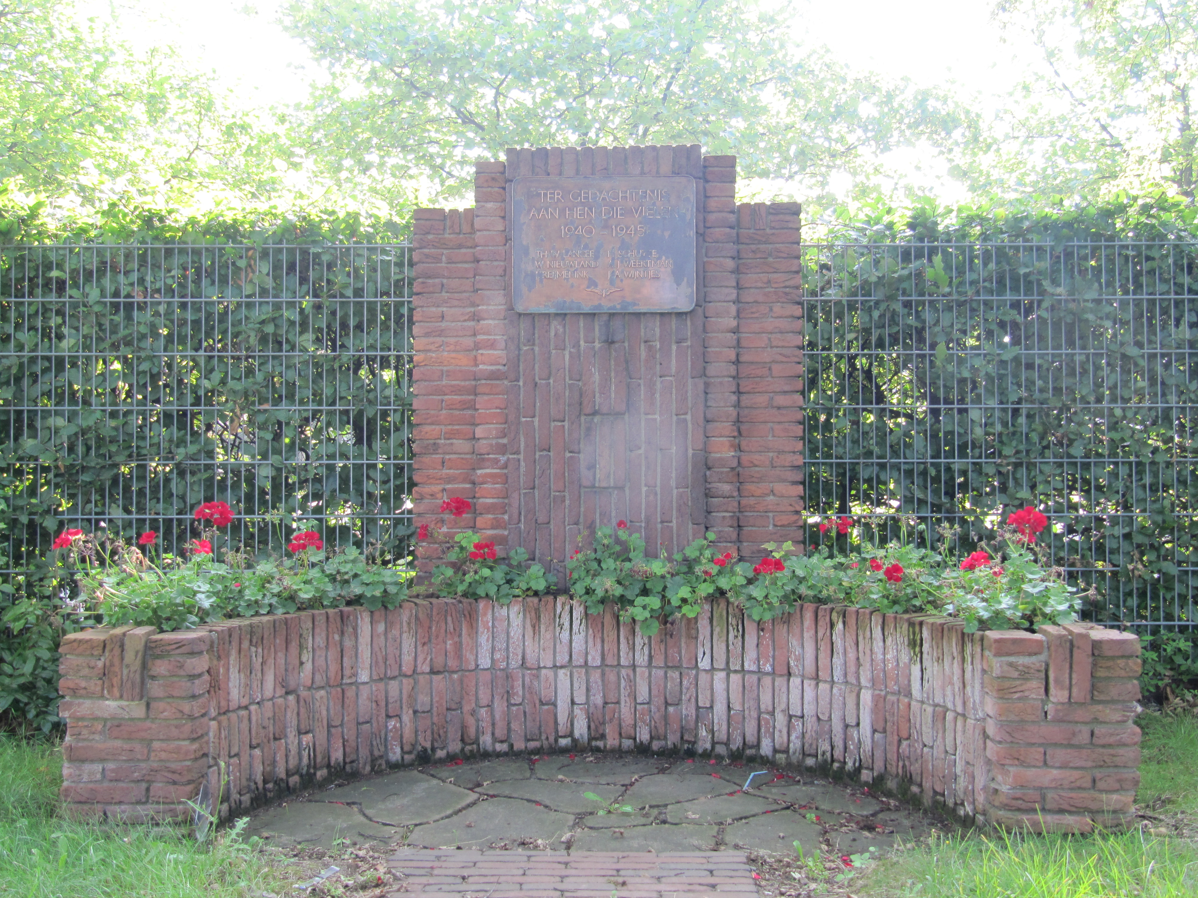 War memorial, designed by Ir. Hermanus Gerardus Jacob Schelling (architect) and Hendrik Jan Winkelman (draughtsman), at the entrance of the NS Wagenwerplaats at the Soesterweg in Amersfoort, The Netherlands